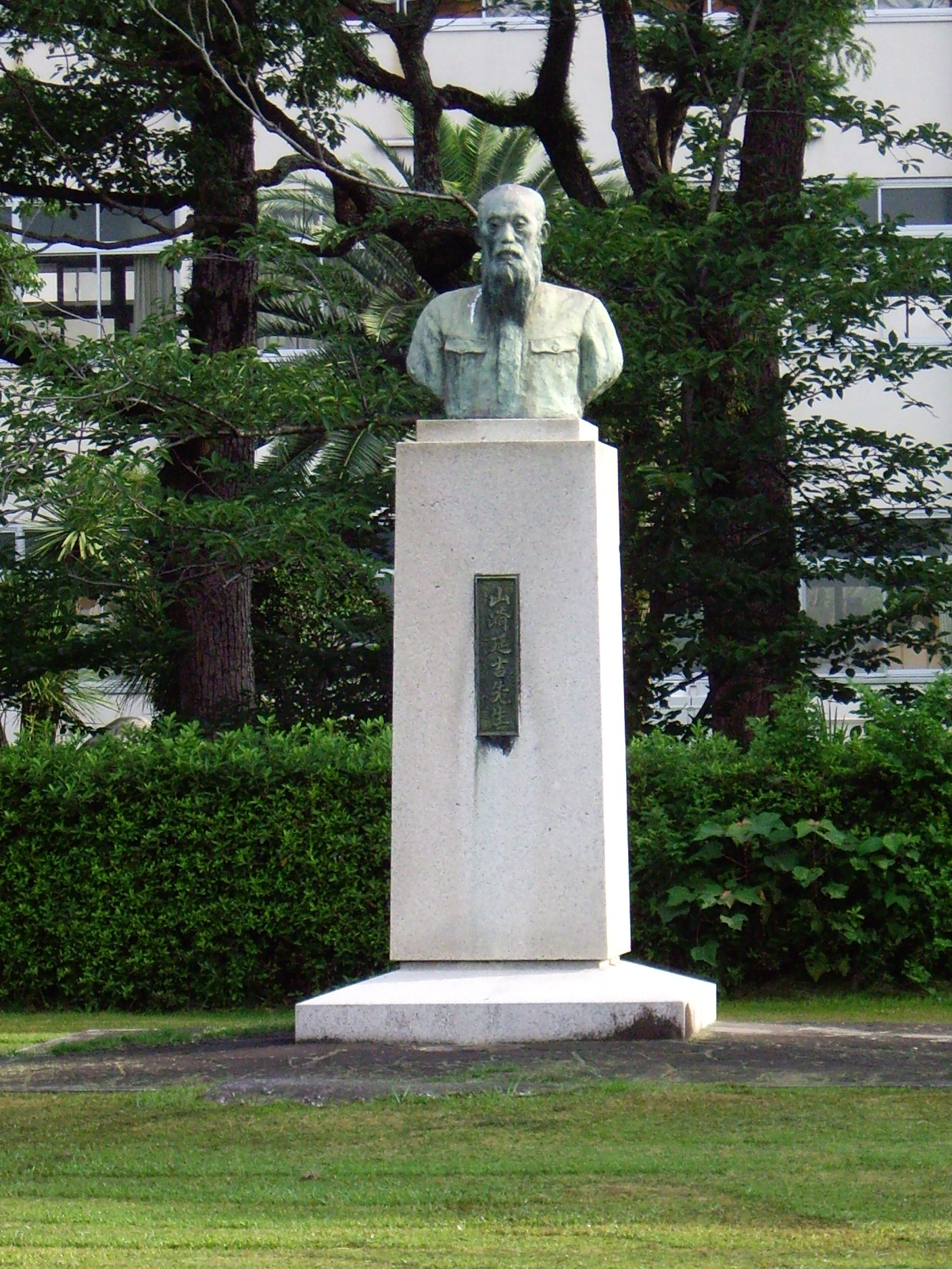 The bust of Nobuyoshi Yamazaki at Aichi prefectural Anjo Norin High School.